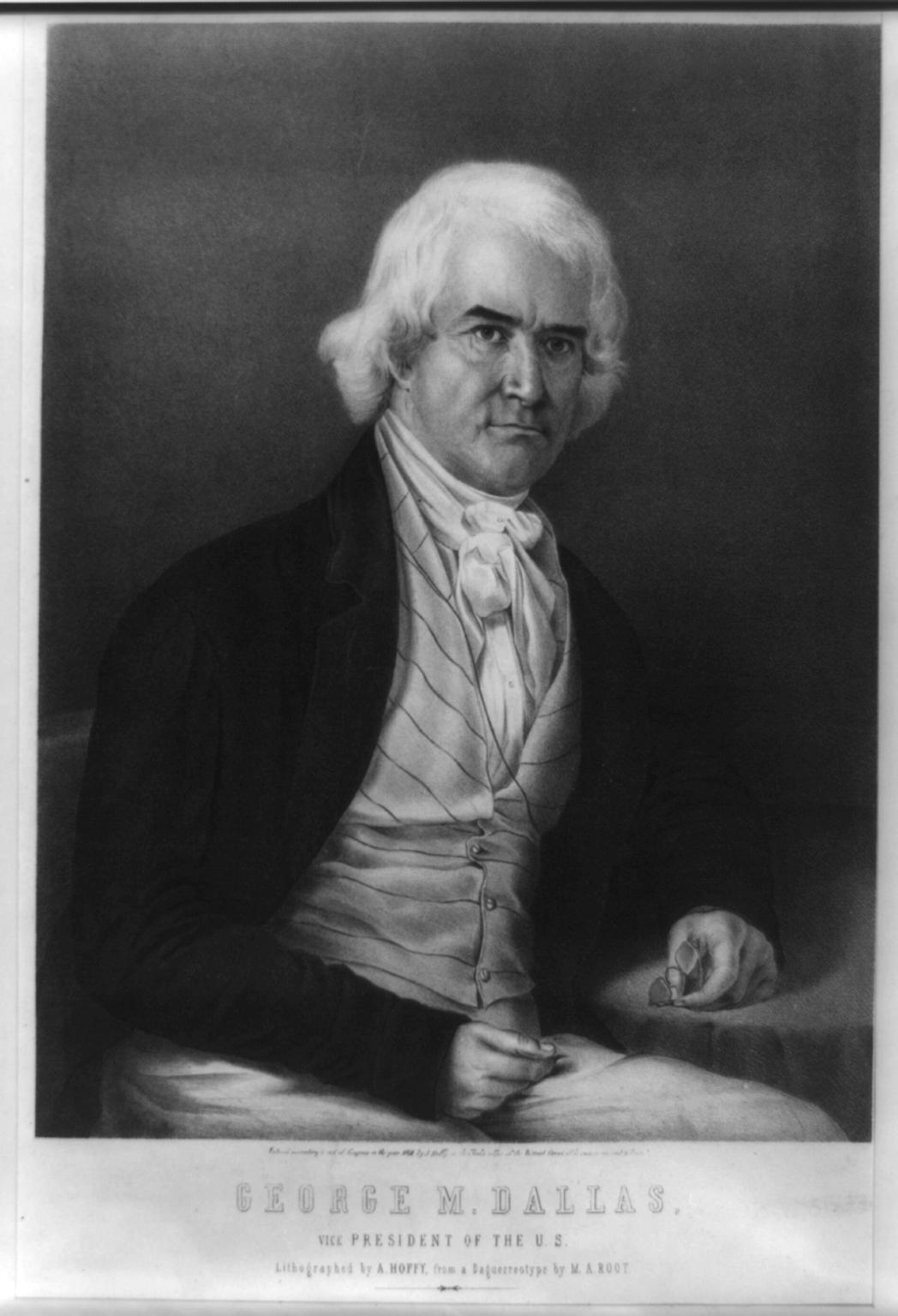 Vice-president of the US George Dallas (1792-1864)